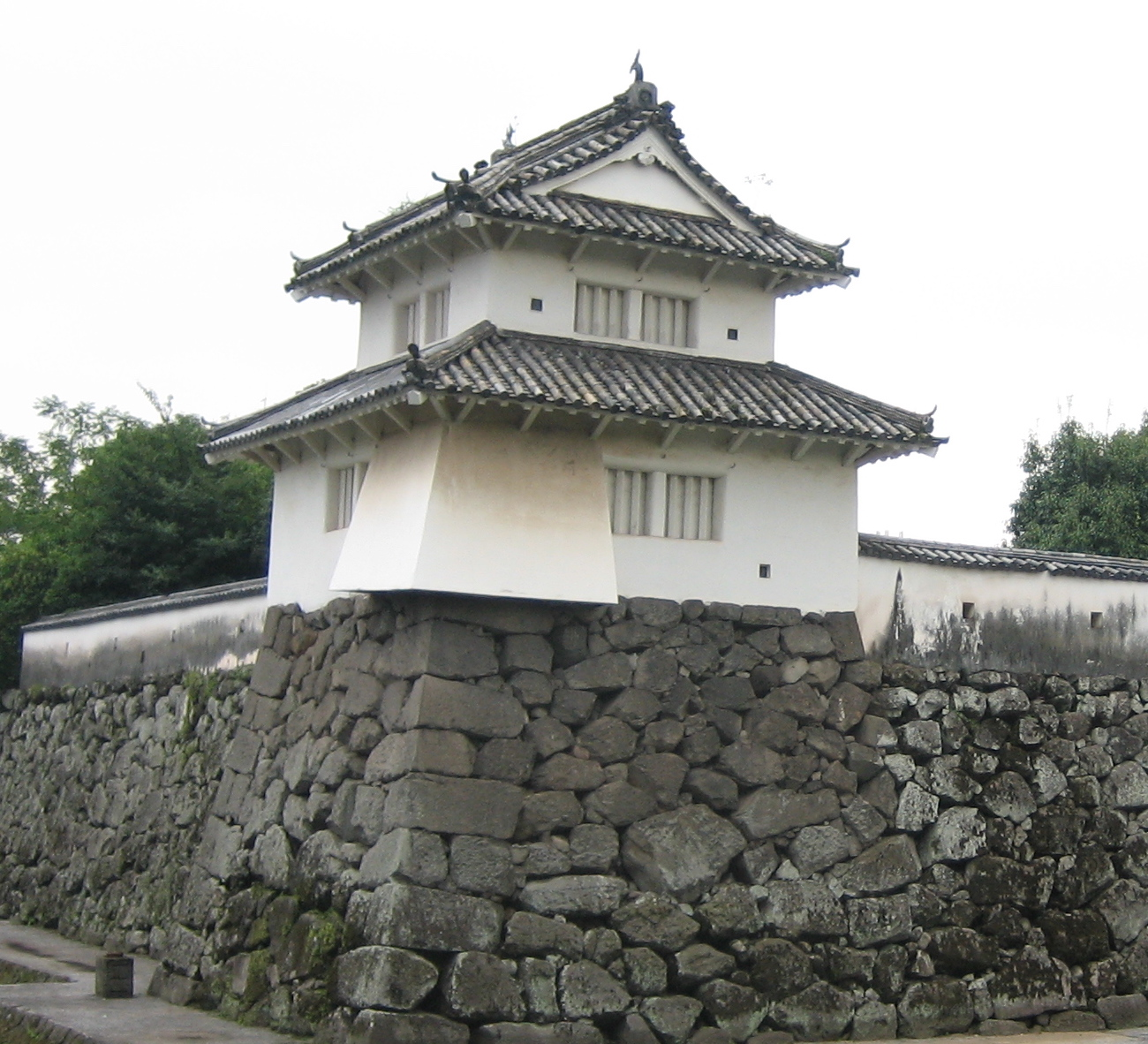 photo of Funai Castle Hitojichi-yagura and Base of The Keep Tower in Honmaru cropped version of